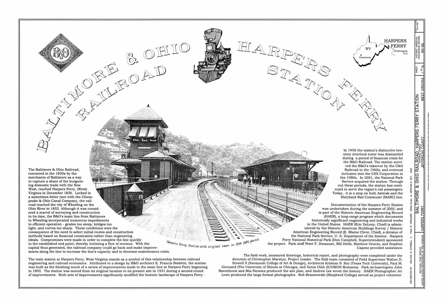 Harpers Ferry Train Depot (c. 1986) designed by E. Francis Baldwin